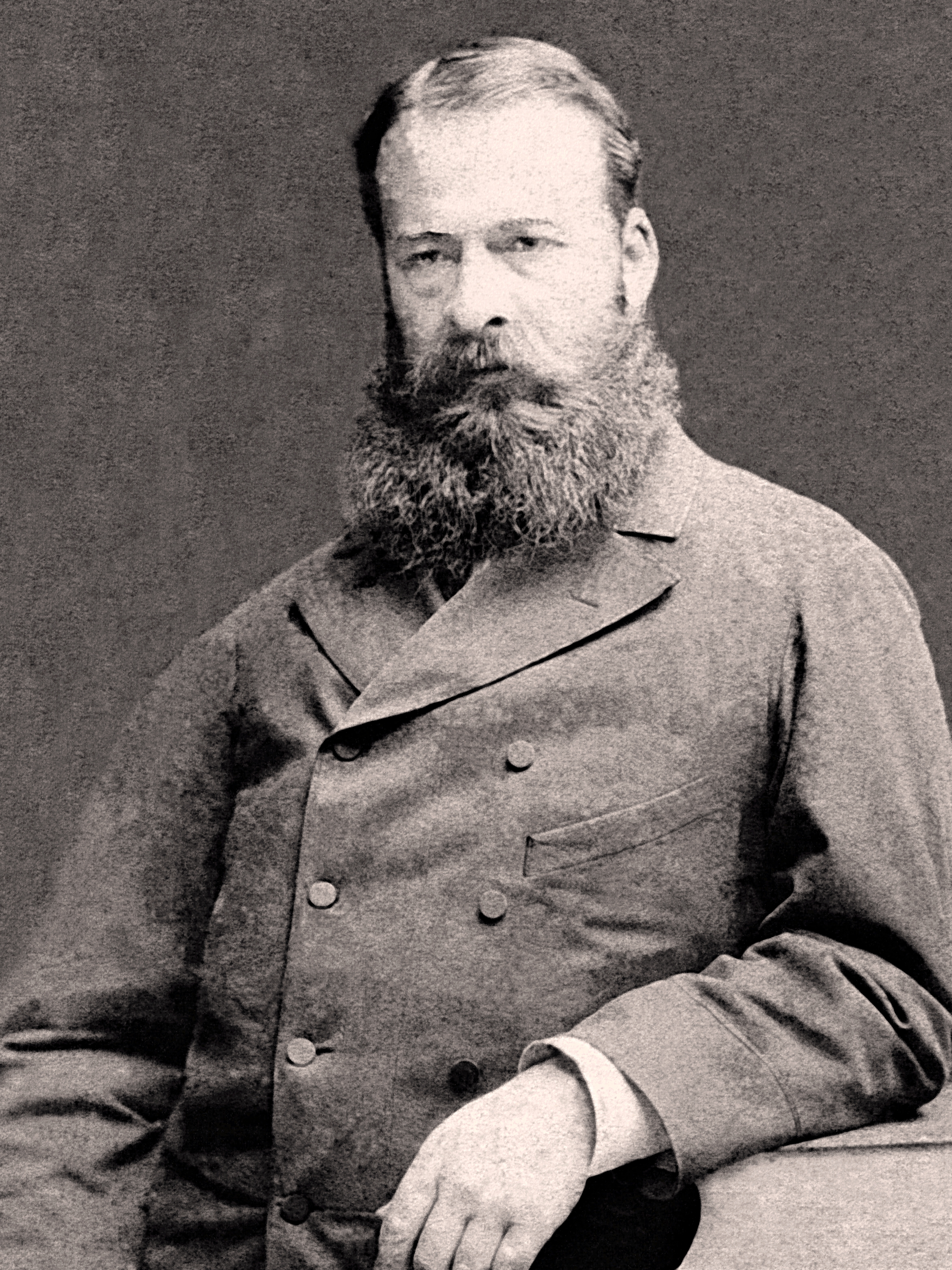 Theodore de Korwin Szymanowski around 1885